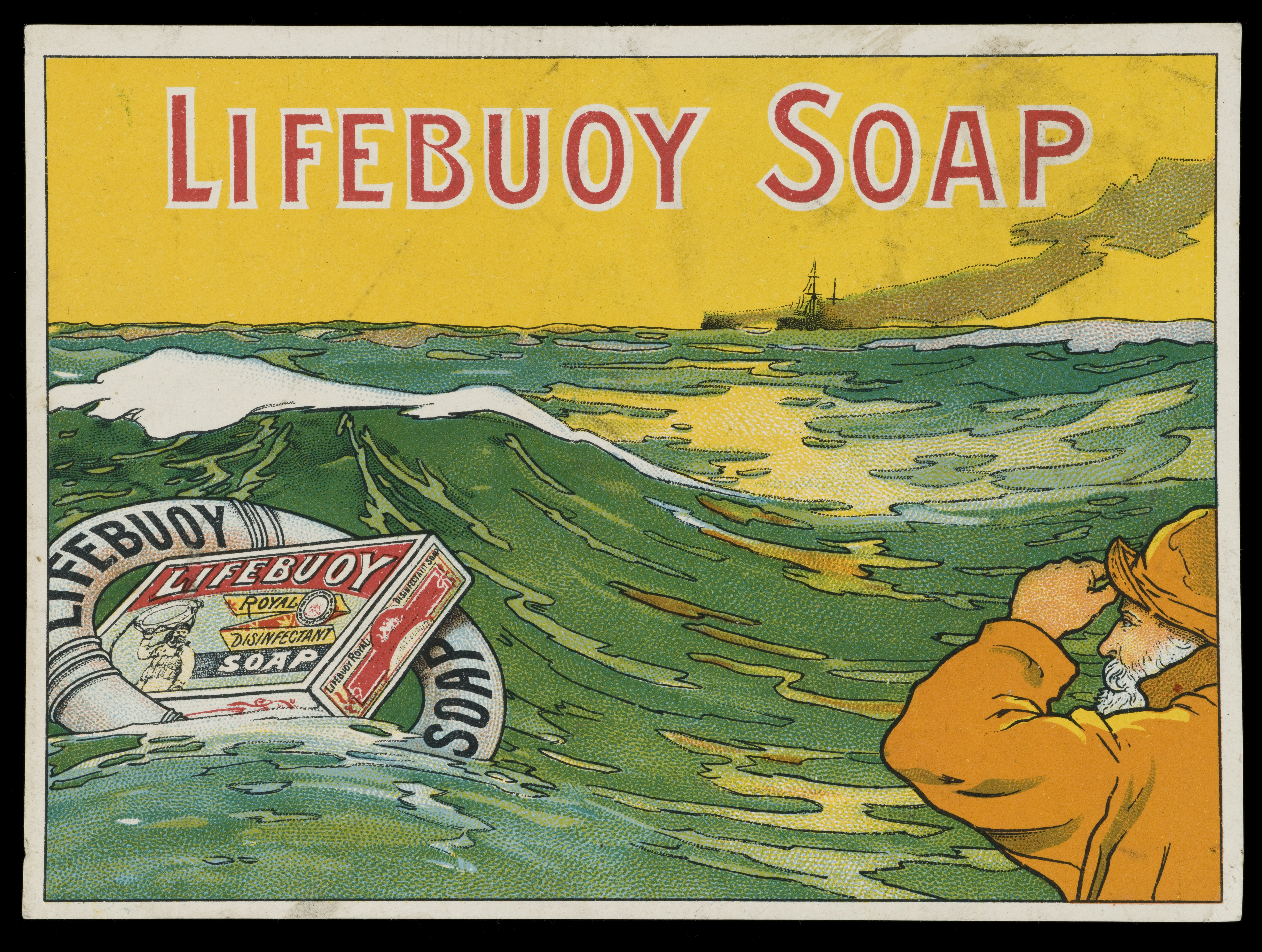 Lifebuoy soap : rescue yourself and others from contagion and disease by using Lifebuoy Royal Disinfectant Soap... / Lever Brothers Ltd. General Collections